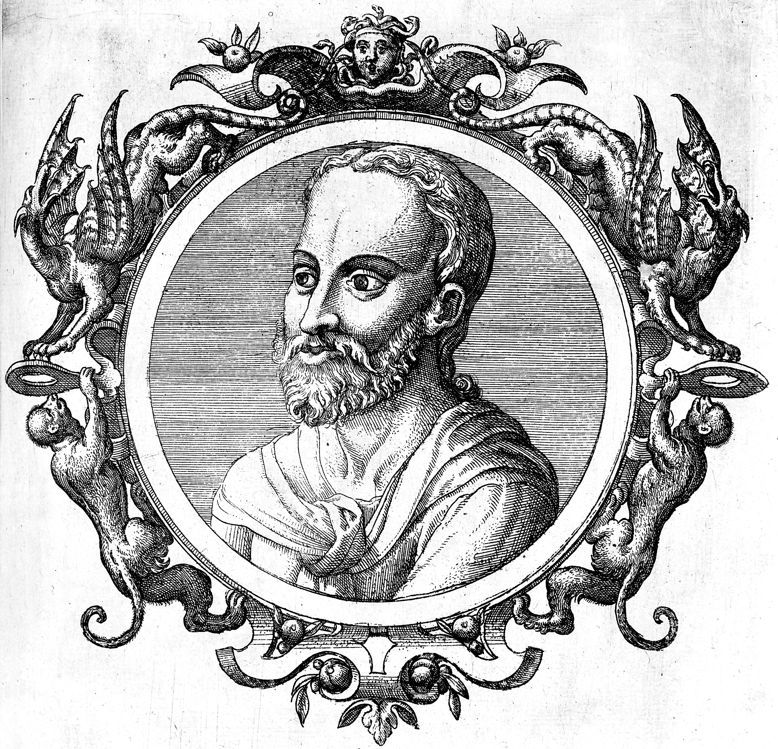 Rare Books Keywords: Sambucus, J.; Portraiture